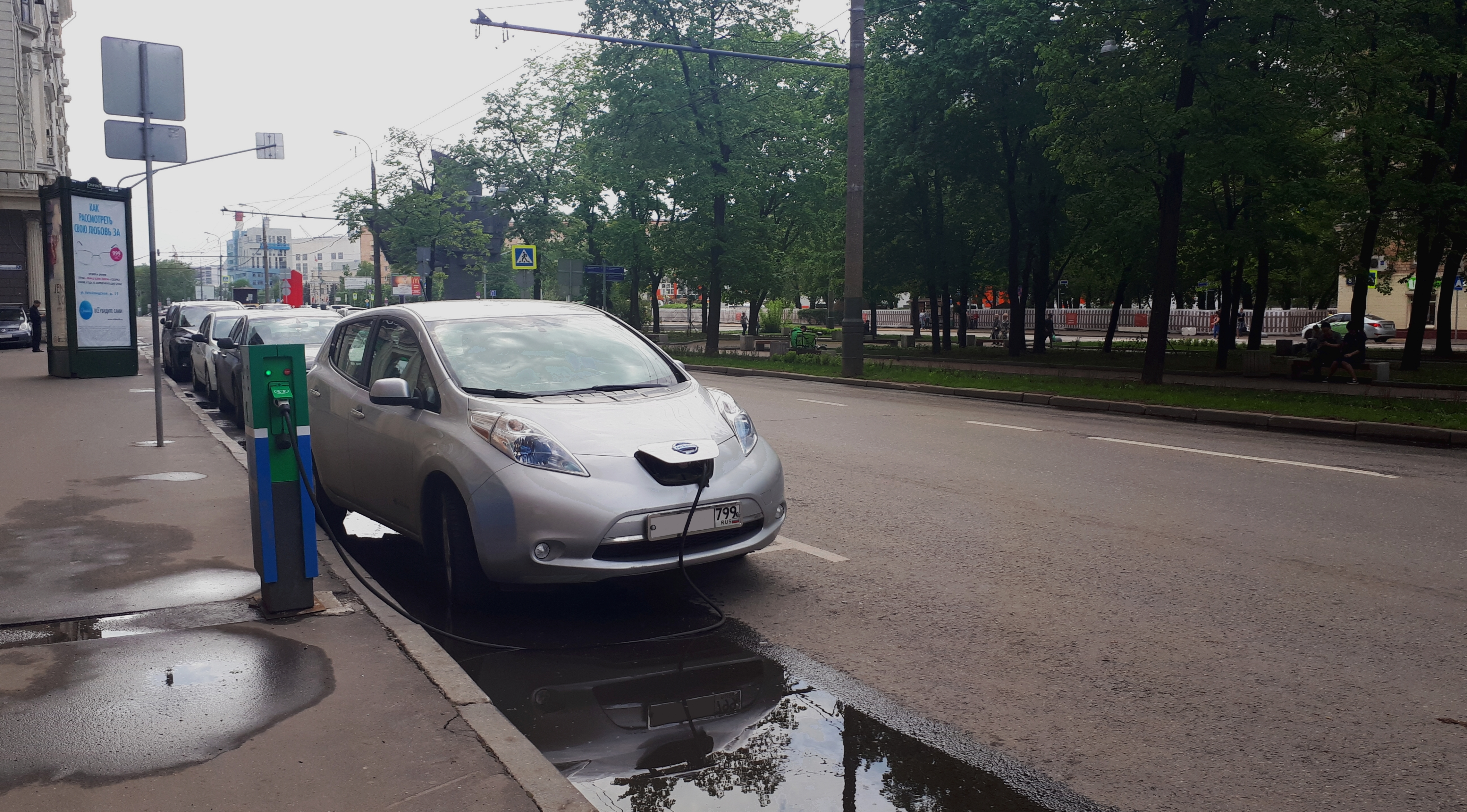 Nissal Leaf in Moscow.